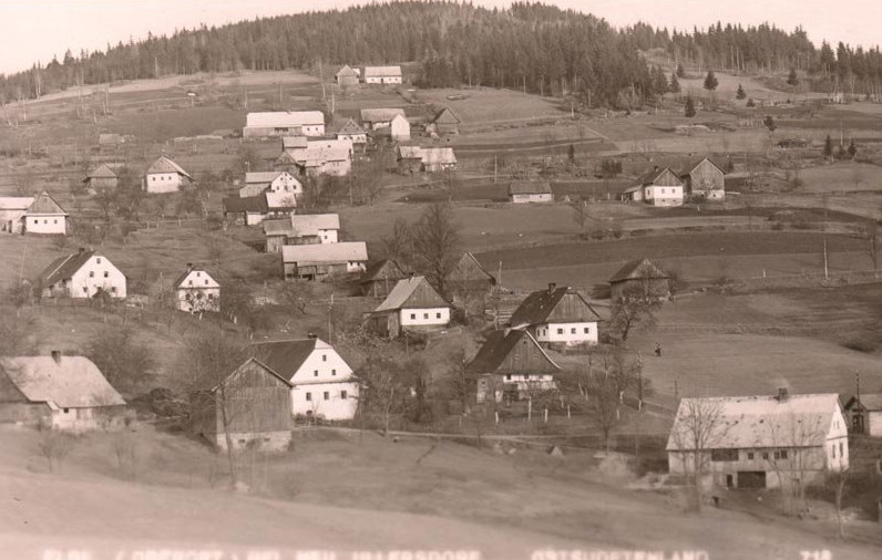 A historic picture of Labe hamlet